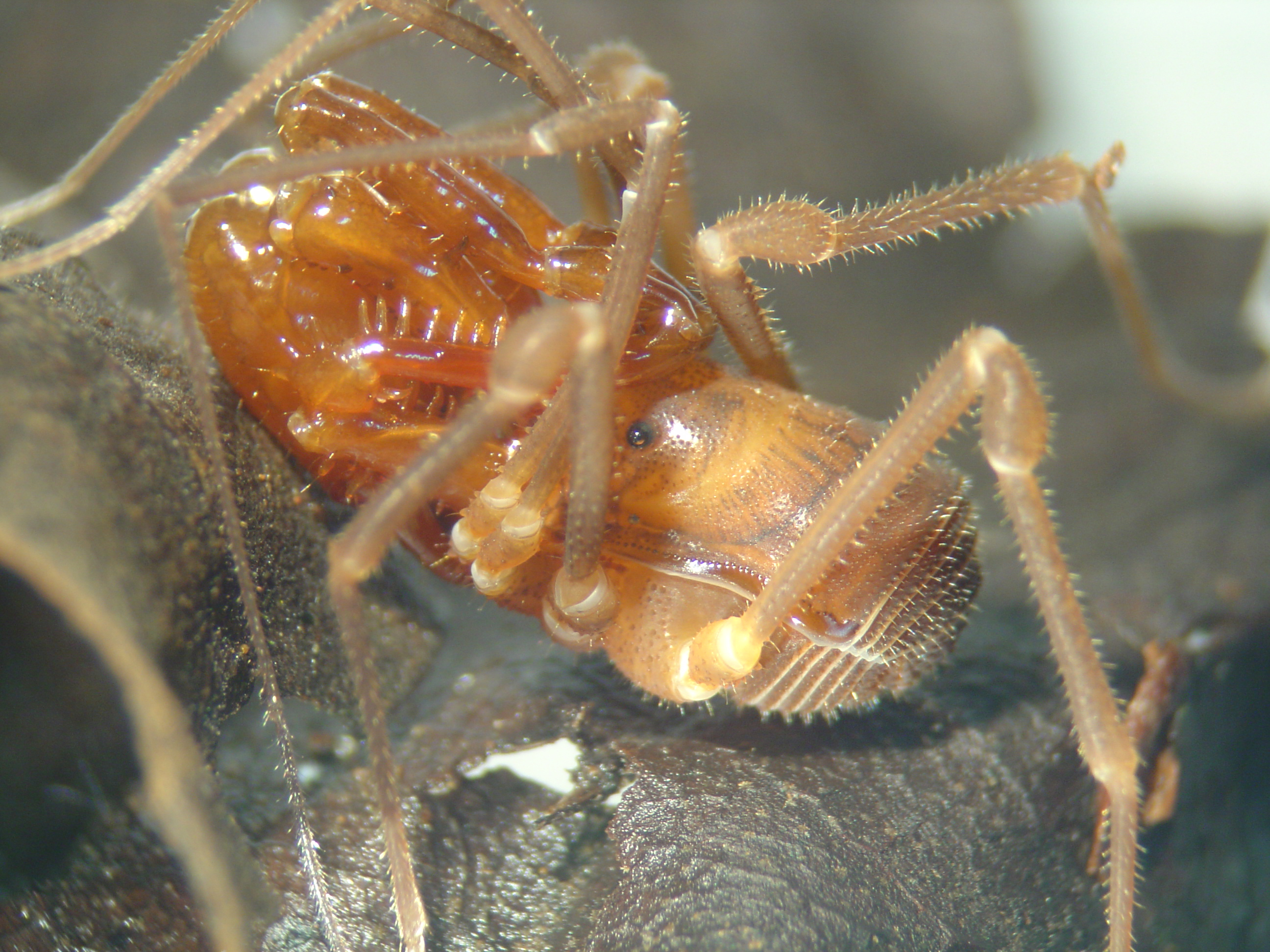 Stygnommatidae, Stygnomma sp., from Siquirres, Costa Rica